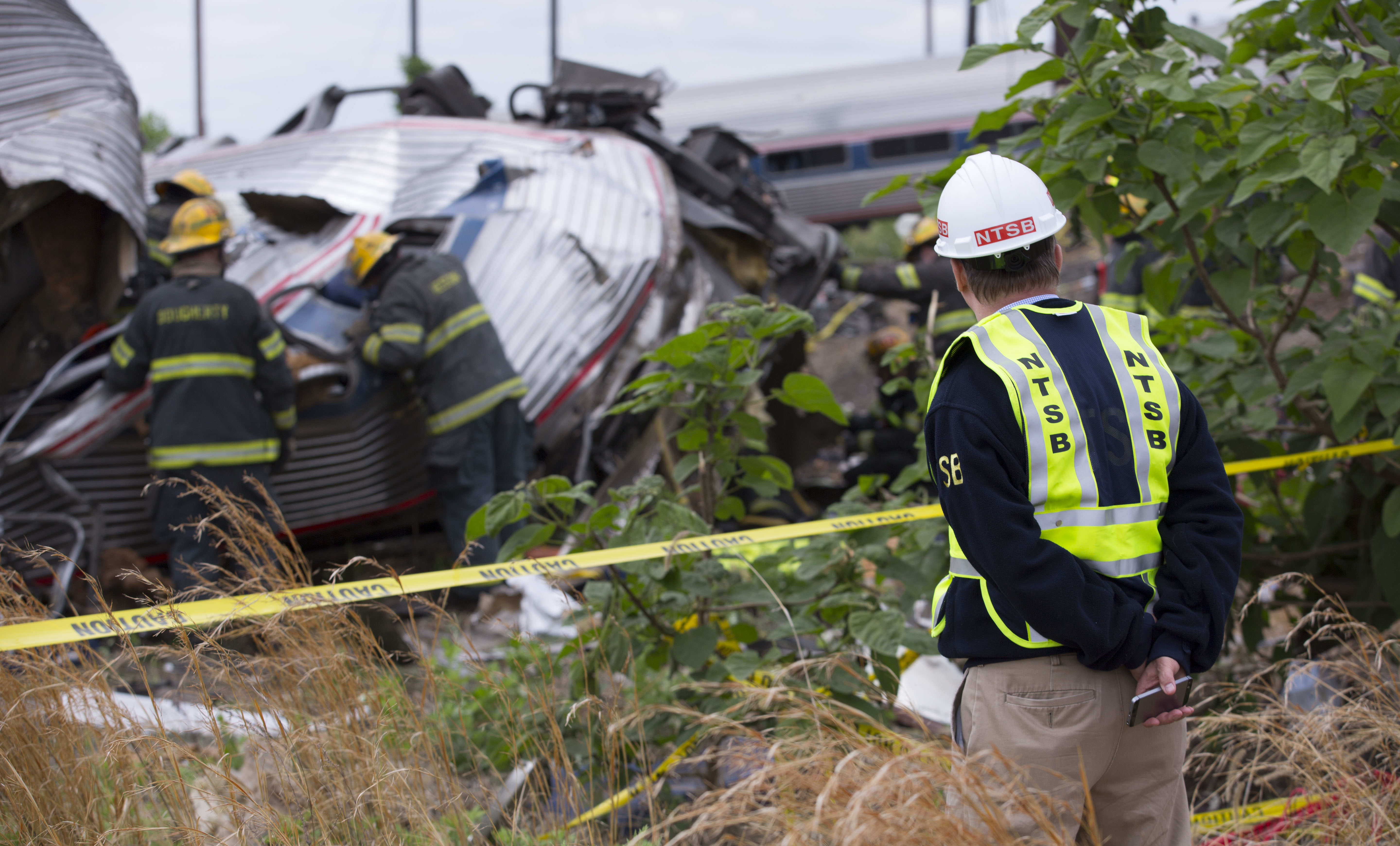 NTSB Member Robert Sumwalt on the scene of the Amtrak Train #188 Derailment in Philadelphia, PA